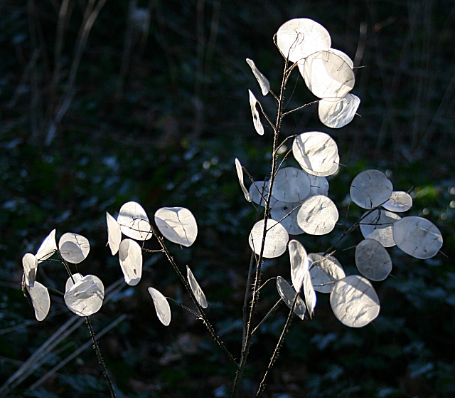 Honesty (Lunaria annua) The seed pods of this plant, which is a common garden escape, are more striking than its modest purple flowers. These pods were catching the low December sunlight in the woods by the Burn of Fochabers.